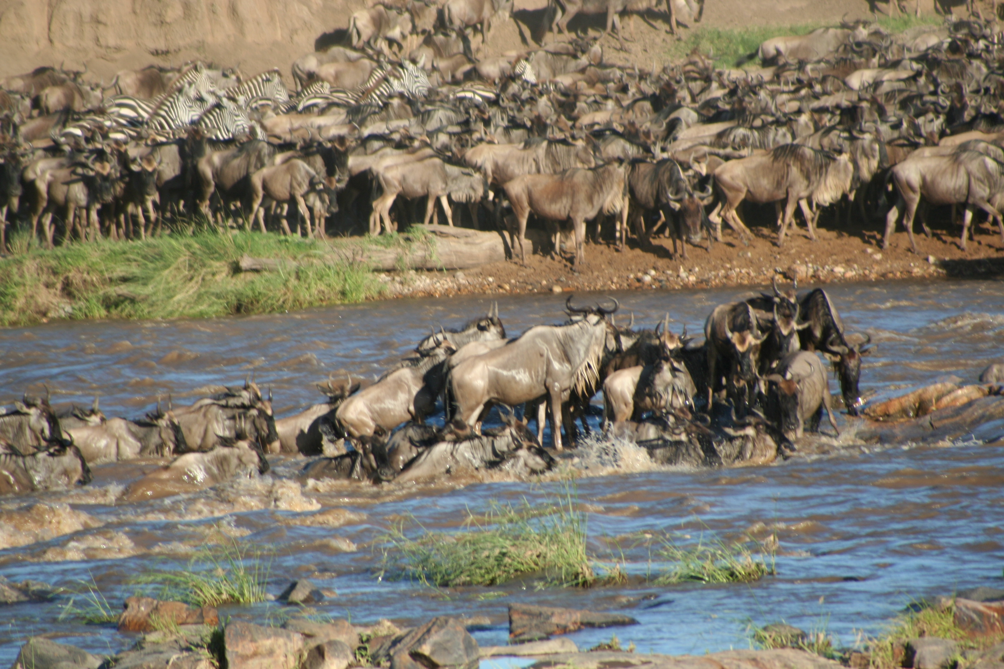 Wildebeest crossing the river